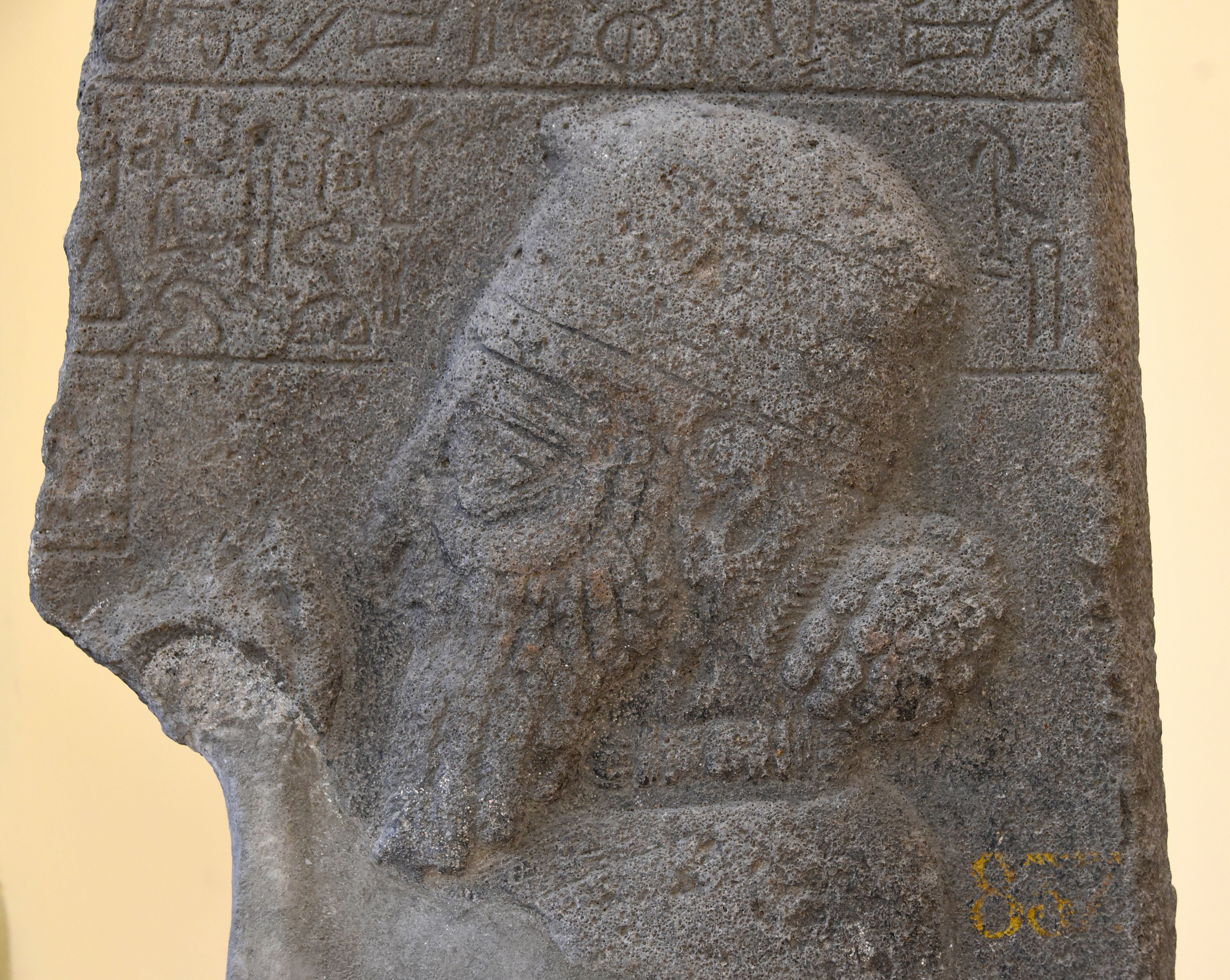 Warpalawas, king of Tyana, prays in front of divine symbols. Detail of a basalt stele from Bor, Niğde, in modern-day Turkey. Late Hittite period, 8th century BC. Museum of the Ancient Orient, Istanbul.